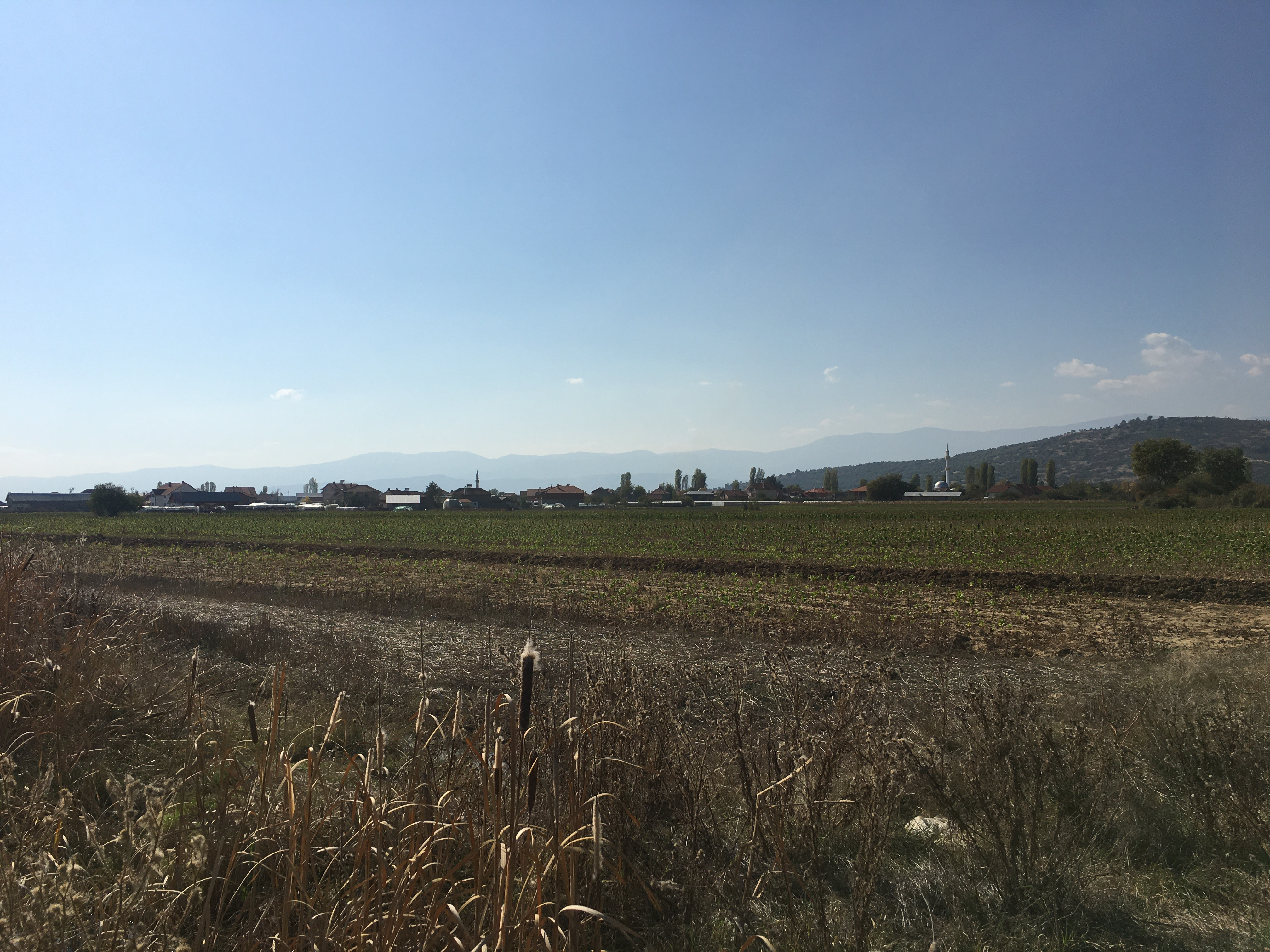 A view of the village of Peštalevo